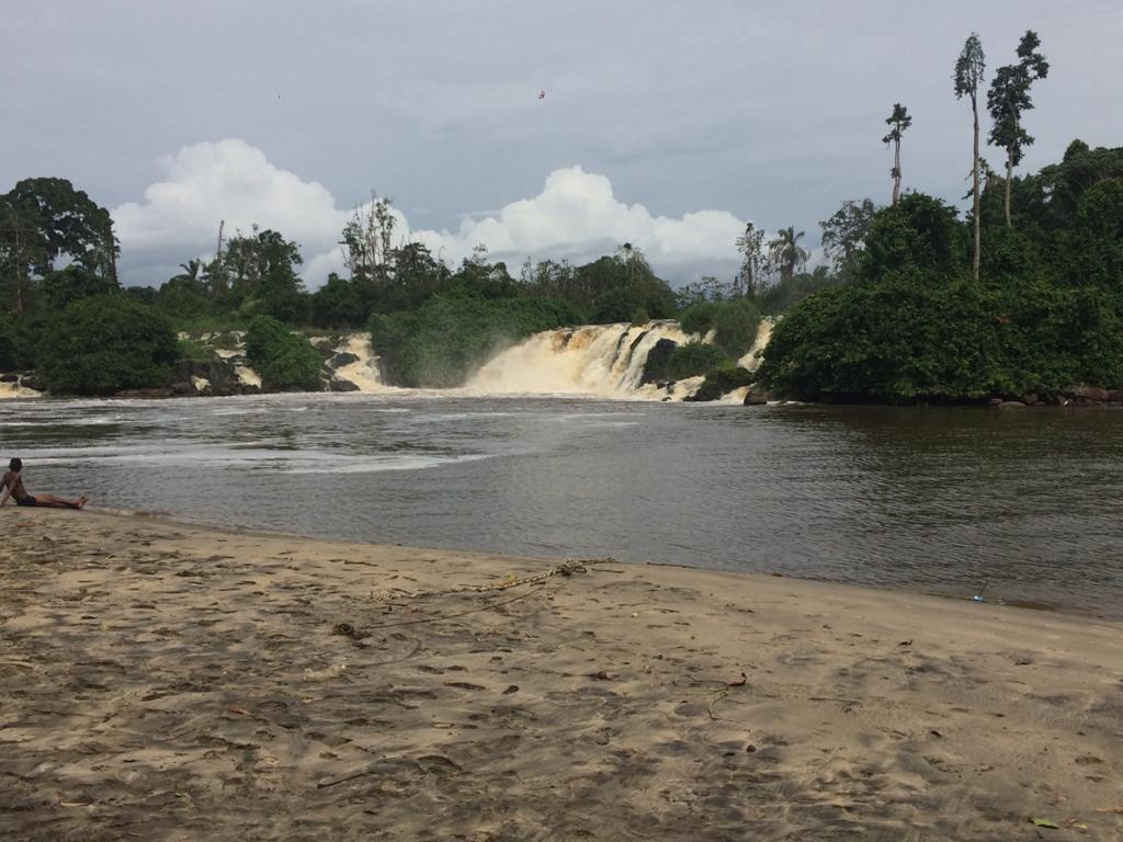 The image is a capture of the Lobé Falls in the city of Kribi in southern Cameroon. This is an image with the theme "Africa on the Move or Transport" from: Cameroon